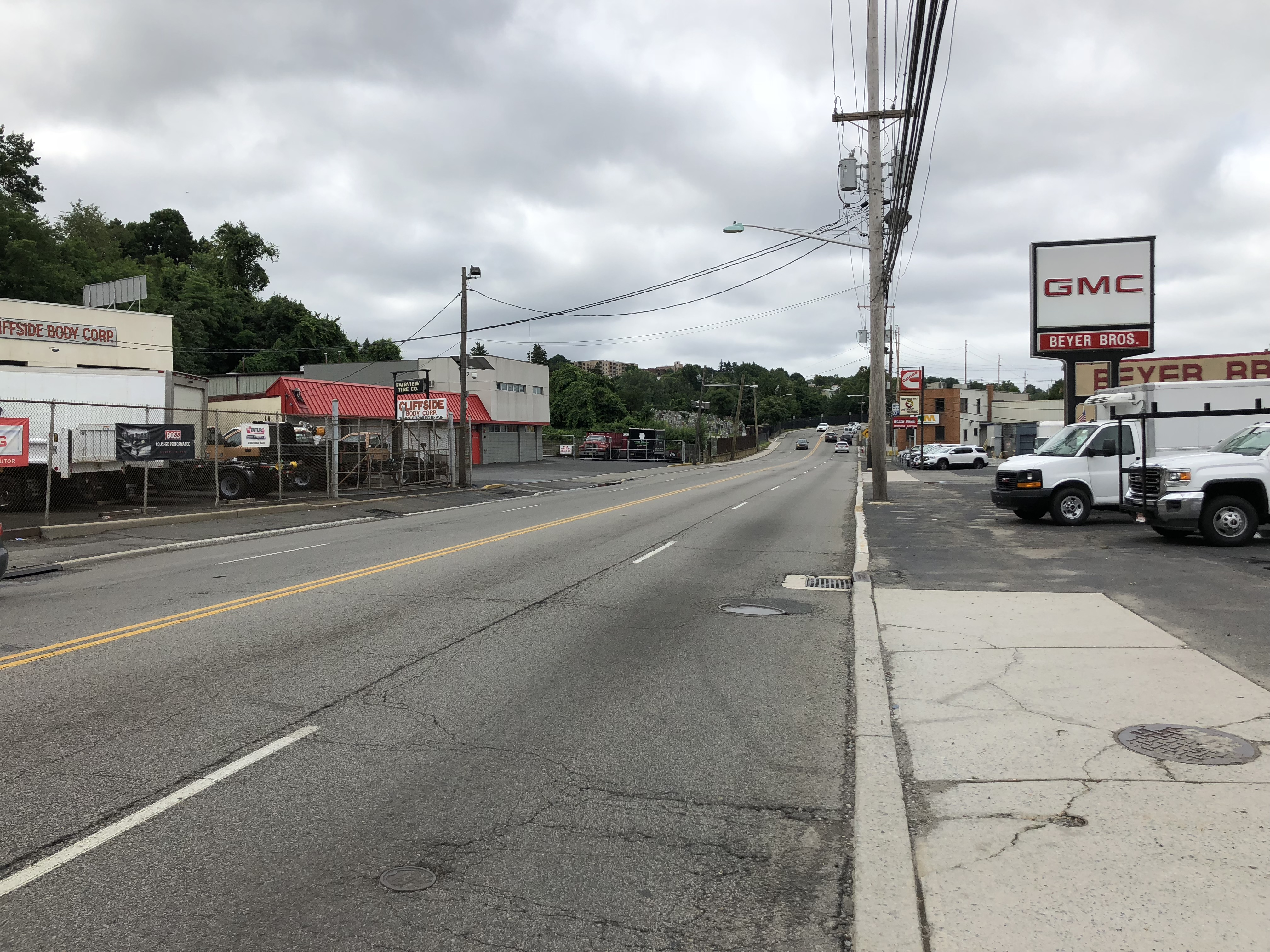 View south along U.S. Route 1 and U.S. Route 9 (Broad Avenue) just south of Prospect Avenue in Fairview, Bergen County, New Jersey